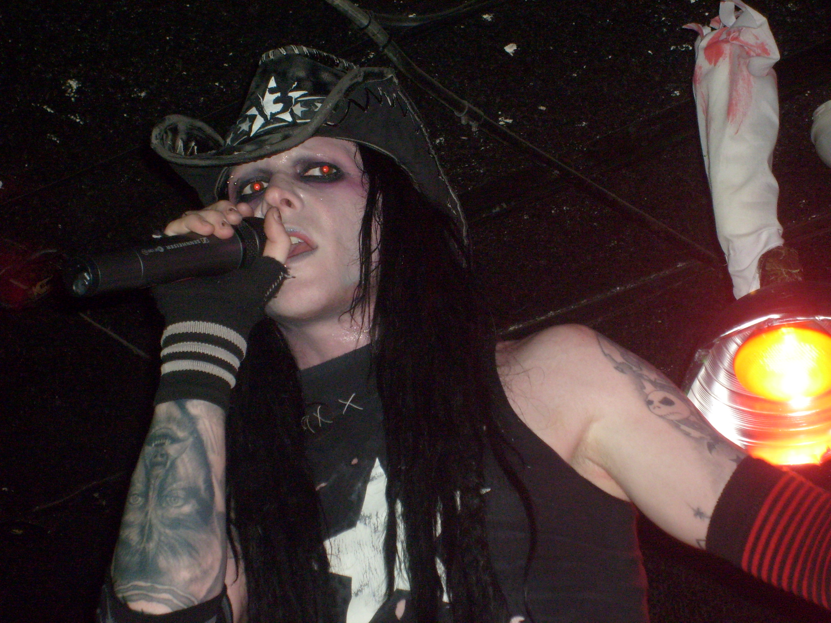 Wednesday 13 on stage at Chain Reaction in Anaheim, CA on the Ghouls on Parade Tour in late 2007.